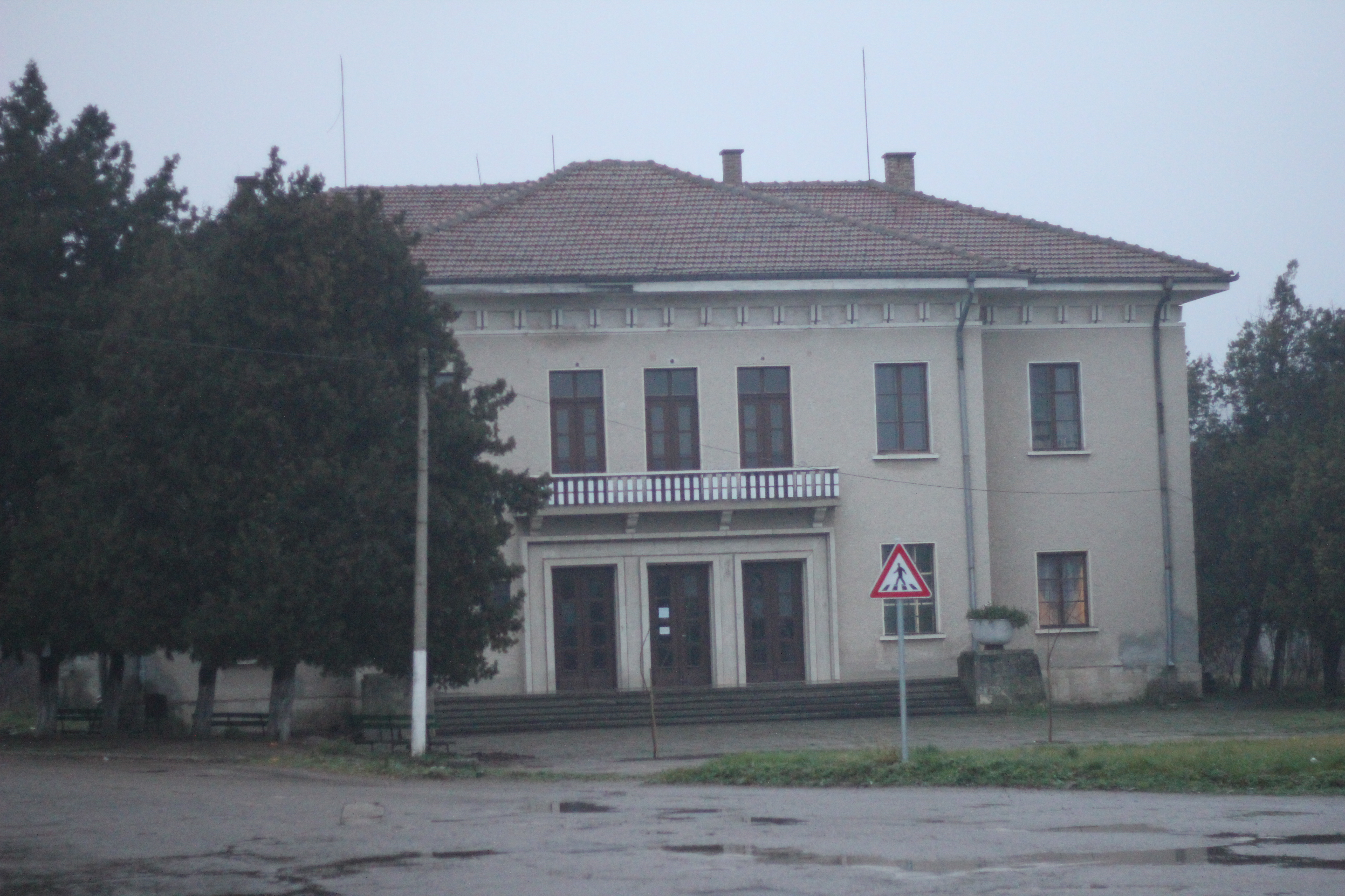 Mokresh down town